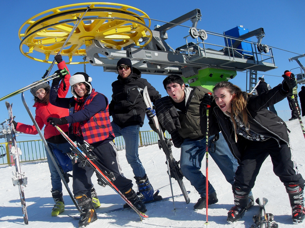 Skiiing Excursion in Tsakhadzor, 2011.